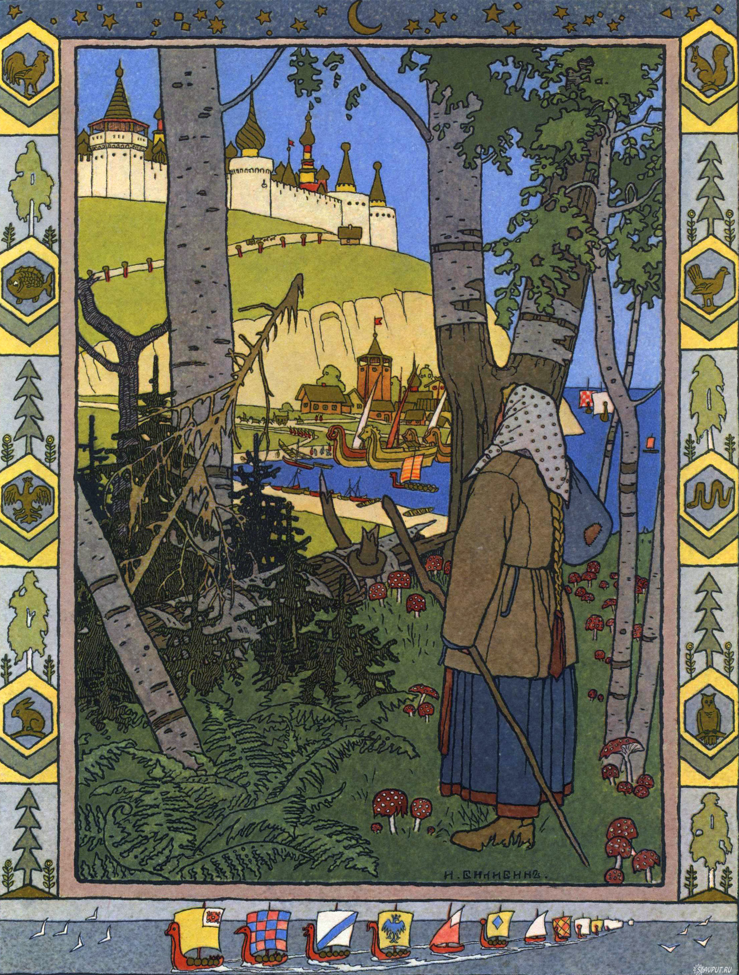 Fenist the Bright Falcon Ivan Bilibin